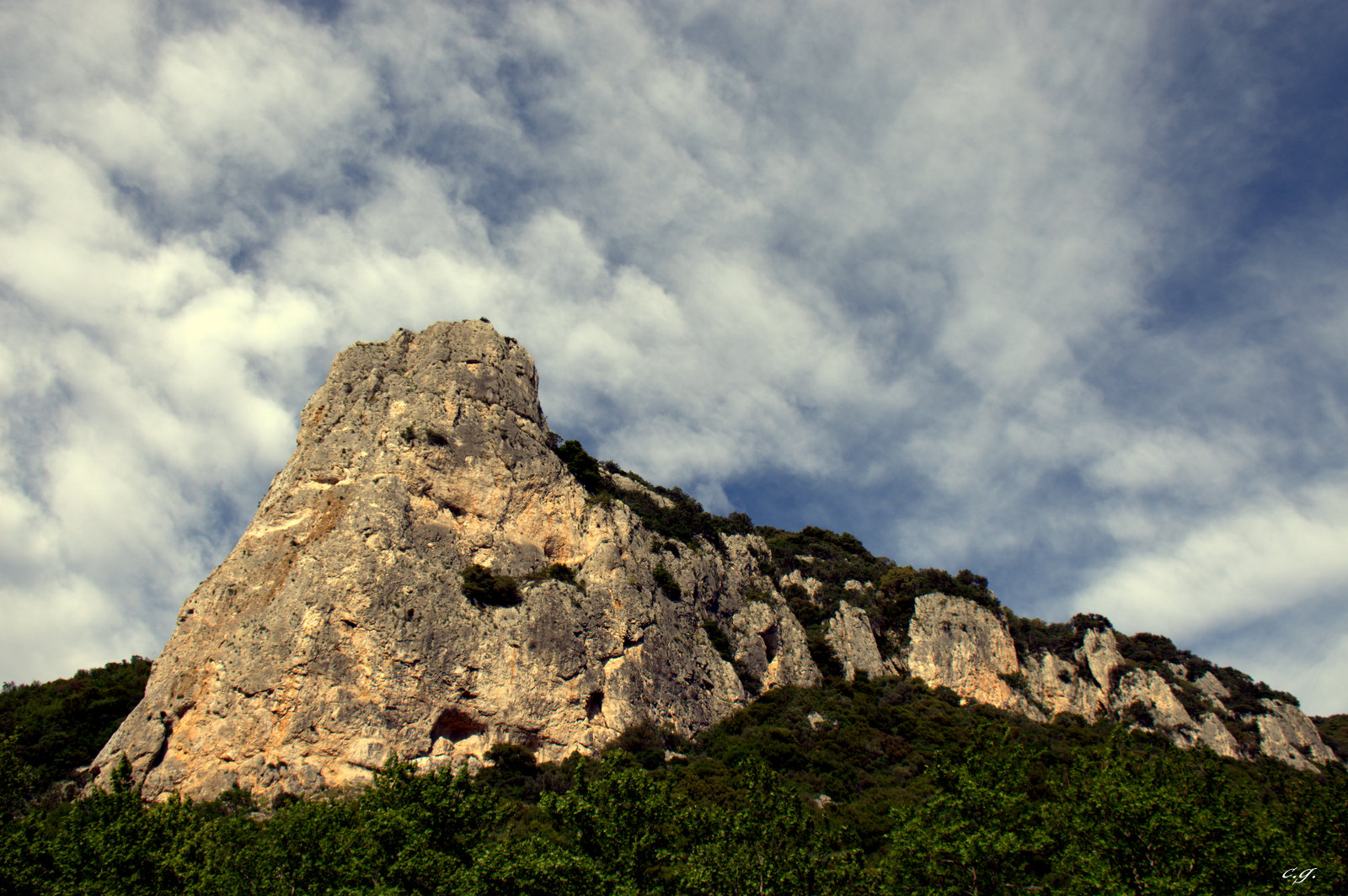 This is a photography of Natura 2000 protected area with ID GR1110005